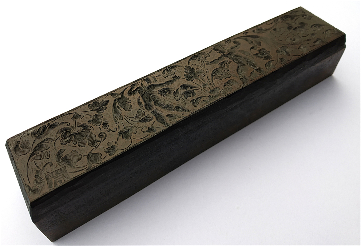 Original printing block dated 1536 with Heinrich Aldegrever's mark (AG) to be found lower left. An example of a print from the block can be found at the V&A in London (Link below) Example of a print from the woodblock